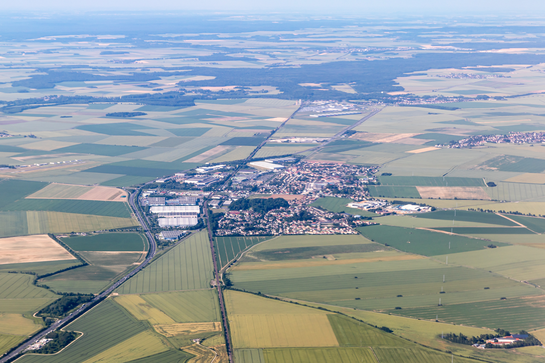 Aerial View of Le Plessis-Belleville